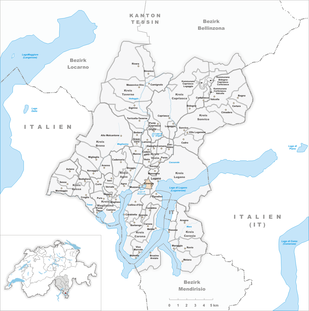 Municipality Sorengo